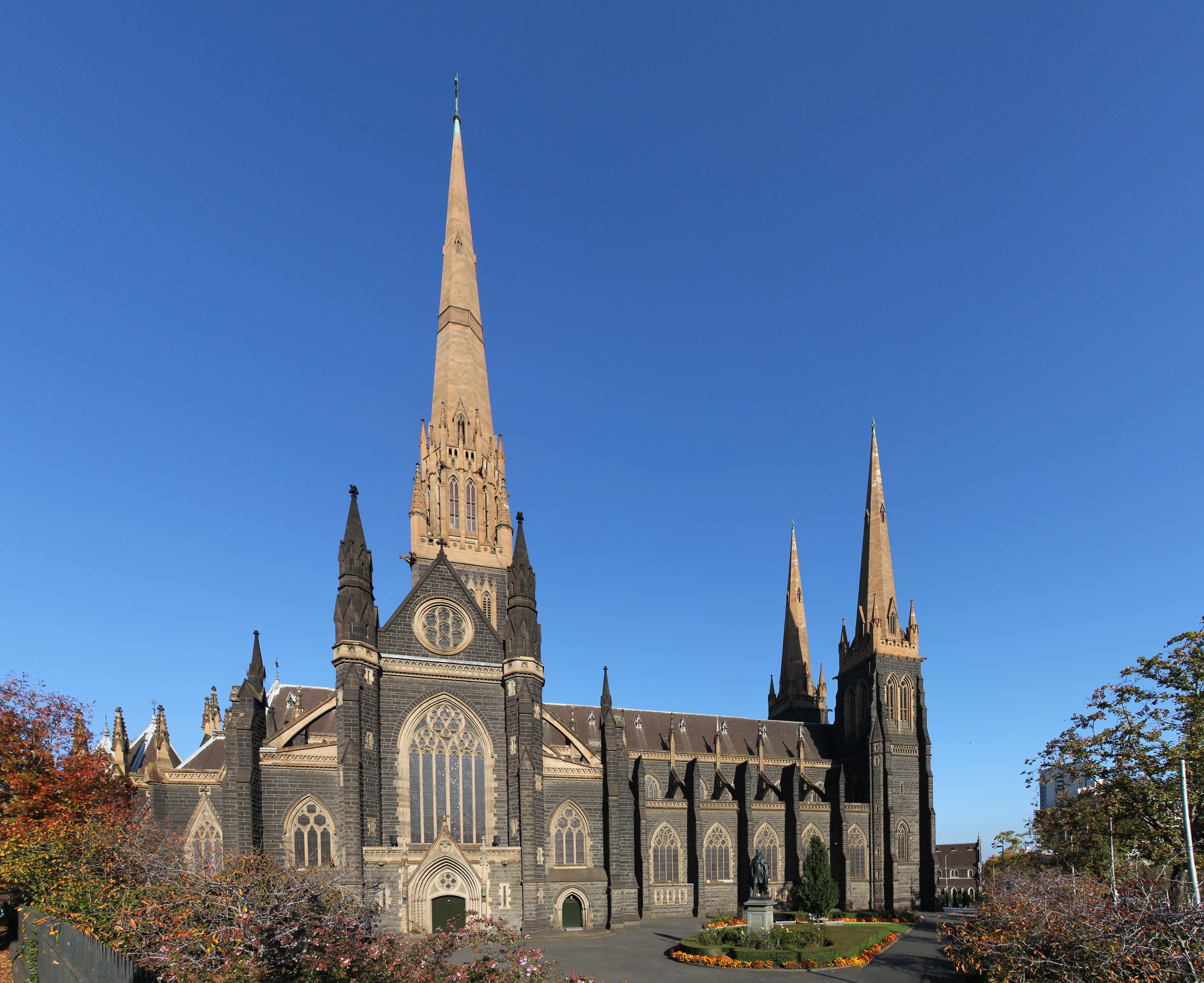 St Patrick's Cathedral View from West Entrance, Melbourne